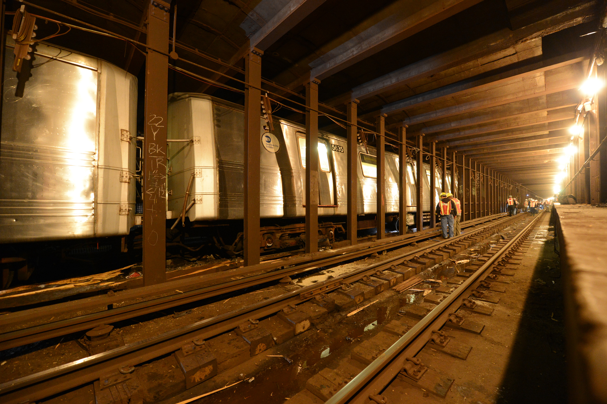 Scene at derailment of F train south of the 65 St. station in Woodside, Queens on Fri., May 2, 2014. Photo: Marc A. Hermann / MTA New York City Transit